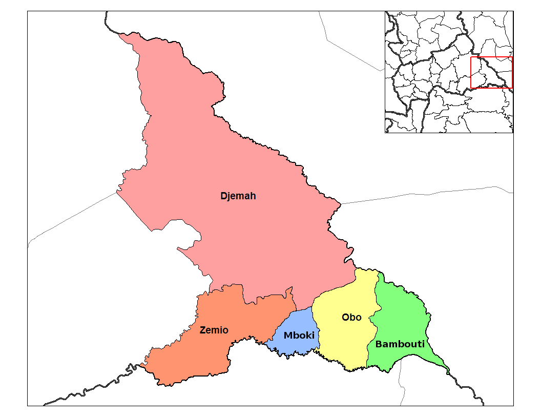 Map of the sub-prefectures of Haut-Mbomou prefecture in the Central African Republic. Created by Rarelibra 19:36, 31 August 2006 (UTC) for public domain use, using MapInfo Professional v8.5 and various mapping resources.